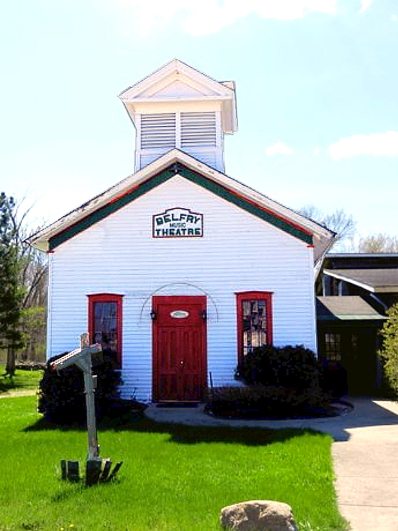 The facade of the Belfry Theater, Williams Bay, Wisc.